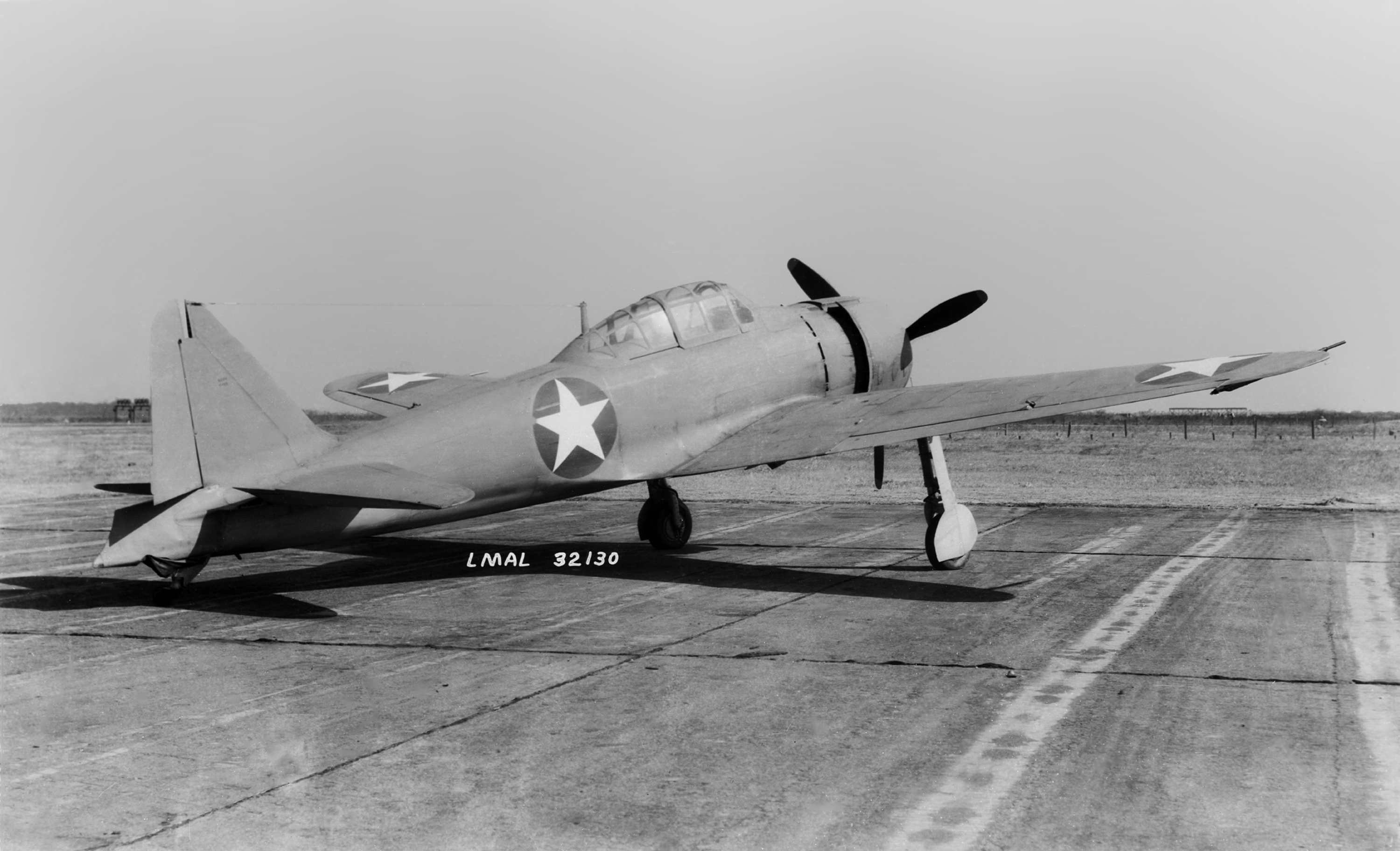 A Japanese Mitsubishi A6M2 Reisen (Allied code "Zeke" or "Zero") at the U.S. National Advisory Committee for Aeronautics (NACA) Langley Research Center, Virginia (USA), on 8 March 1943. On 4 June 1942 a Japanese task force launched a strike against Dutch Harbor, Alaska (USA), from the aircraft carriers Ryujo and Junyo. Petty Officer Tadayoshi Koga was flying an A6M2 from the Ryujo. On the way back to his carrier, he discovered of bullets had pierced his fuel tanks. Therefore he headed for an emergency landing on the bleak marshes of Akutan Island which had been designated as an emergency landing area. However, the plane flipped over on its back during the landing, and Koga was killed, as he broke his neck. The A6M itself was only slightly damaged. A Japanese submarine failed to locate Koga or his plane but five weeks later an American naval scouting party found the Japanese fighter. The A6M2 was salvaged and shipped back to the USA where is was repaired and reflown, and went through an exhaustive series of tests in order to gain information about its strengths and weaknesses.